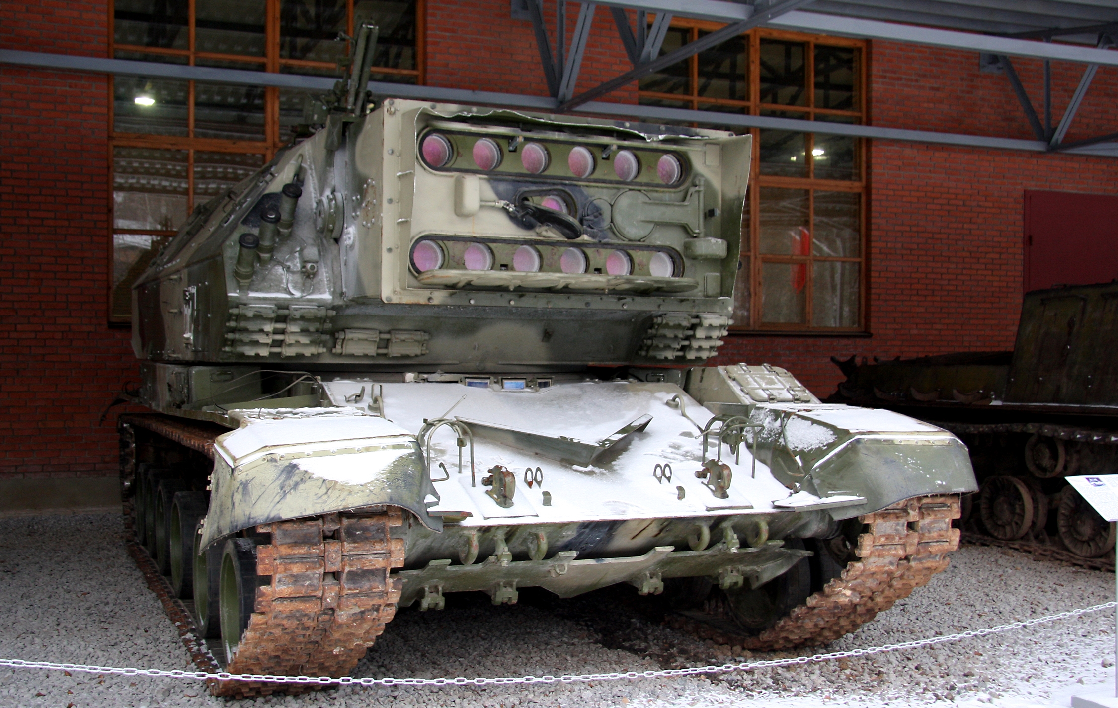 Self-propelled laser system 1K17 Szhatie.